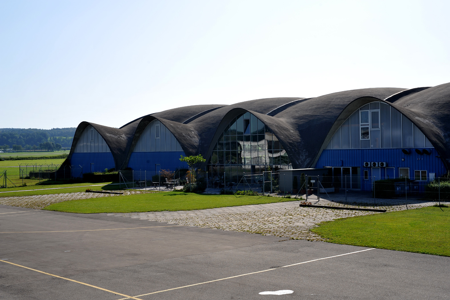 Isler shell, concrete shell roof of the Aviation Flab Museum in Dübendorf, built 1986; Zurich, Switzerland.